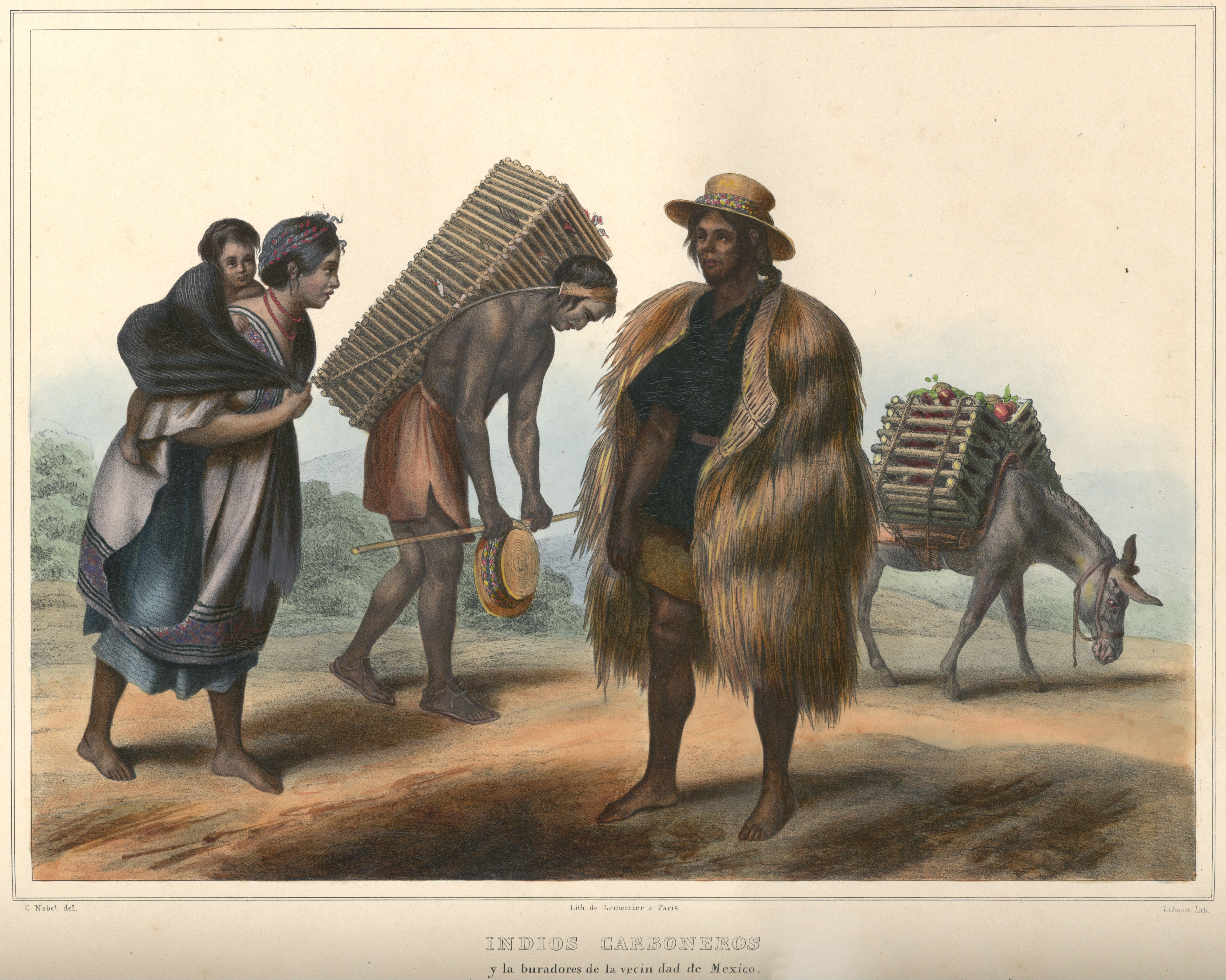 Indios Carboneros, costume group. Hand-colored lithograph highlighted with gum arabic. Original size (neat lines): 39×29 cm.